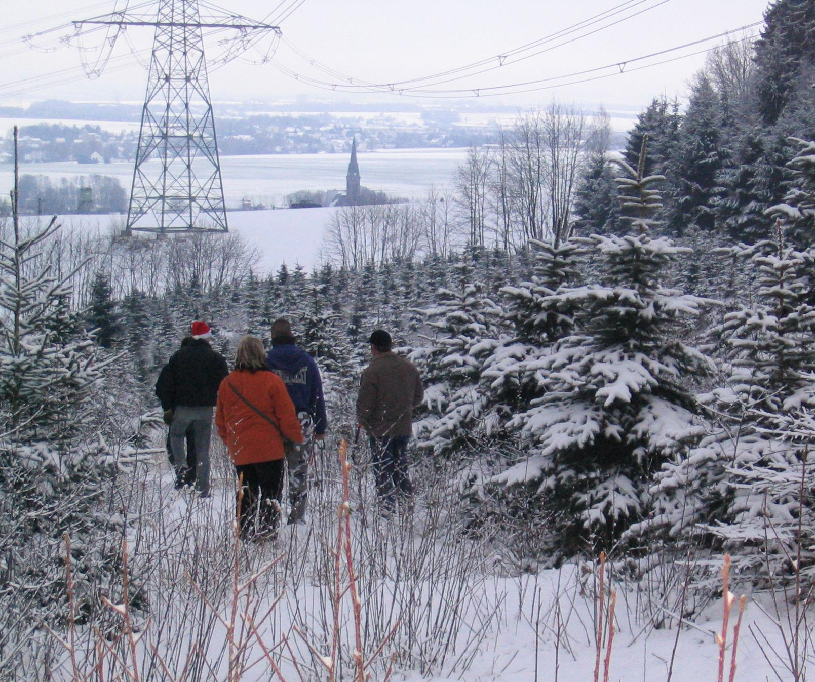 Christmas trees under a line of high voltage.